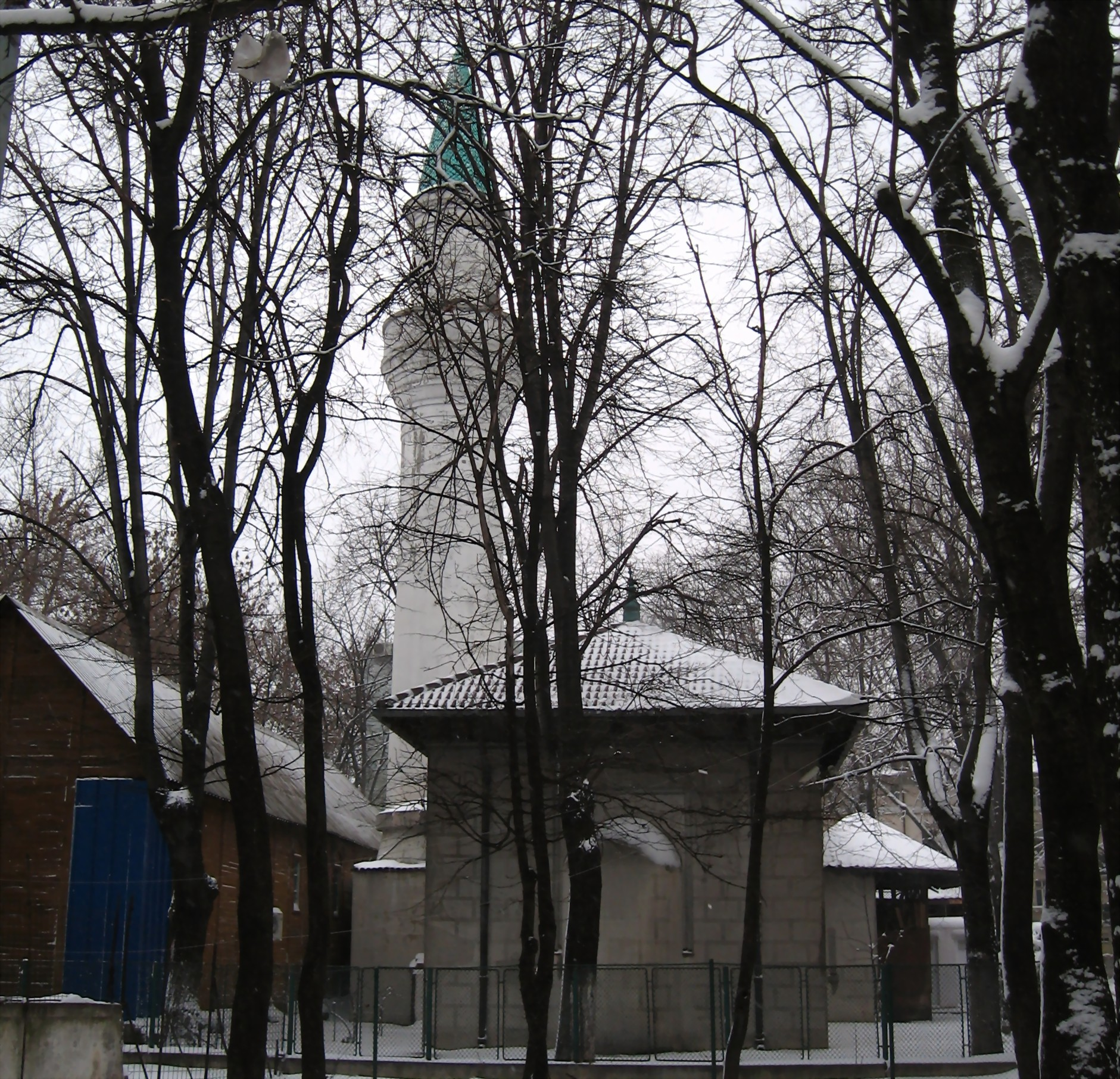 The mosque in Bucharest.